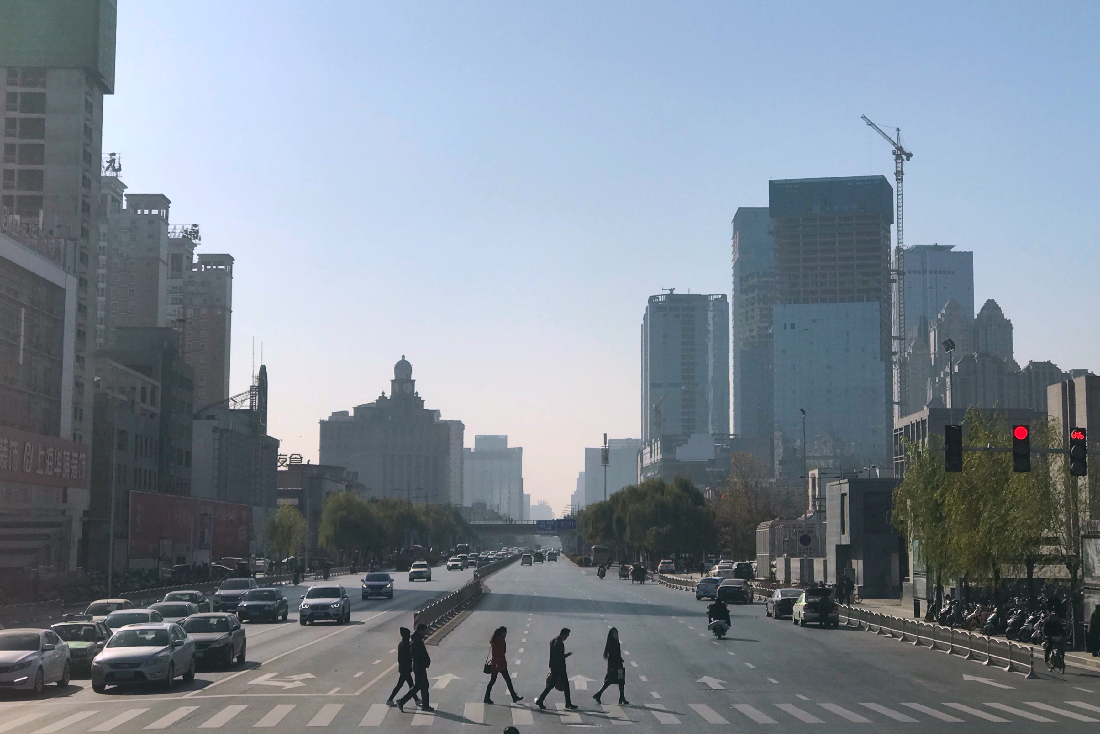 View of Huayuan Road (Photo taken on the second deck of a bus running on route 62)